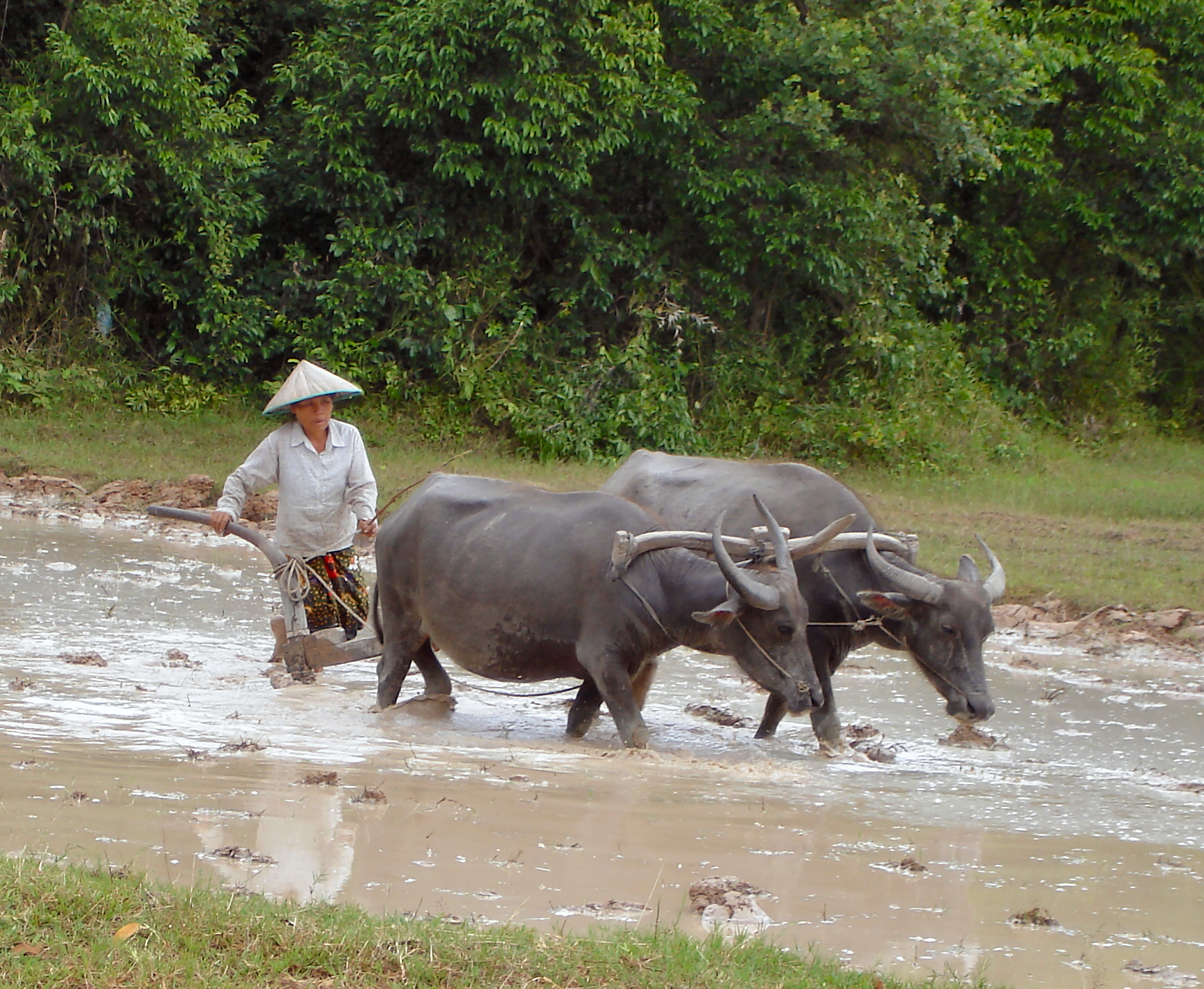 Buffaloes labouring a paddy field in Cambodia (region of Angkor)